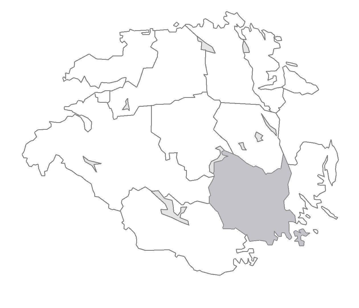 Map describing the location of Rönö Hundred in Södermanlands County, Sweden.